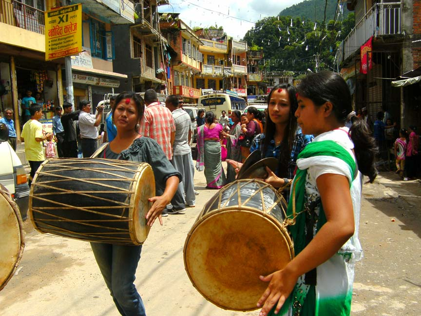 A festival celebrated by Newars in Nuwakot District of Nepal.